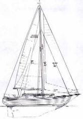 Own picture approved by R Perry